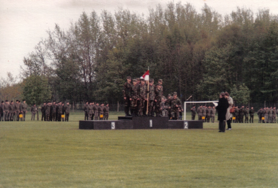 1/11th ACR Boeselager Team was the first U.S. team to win the International Boeselager competition. May 1987 in Hessisch Lichtenau, Hesse, Germany..